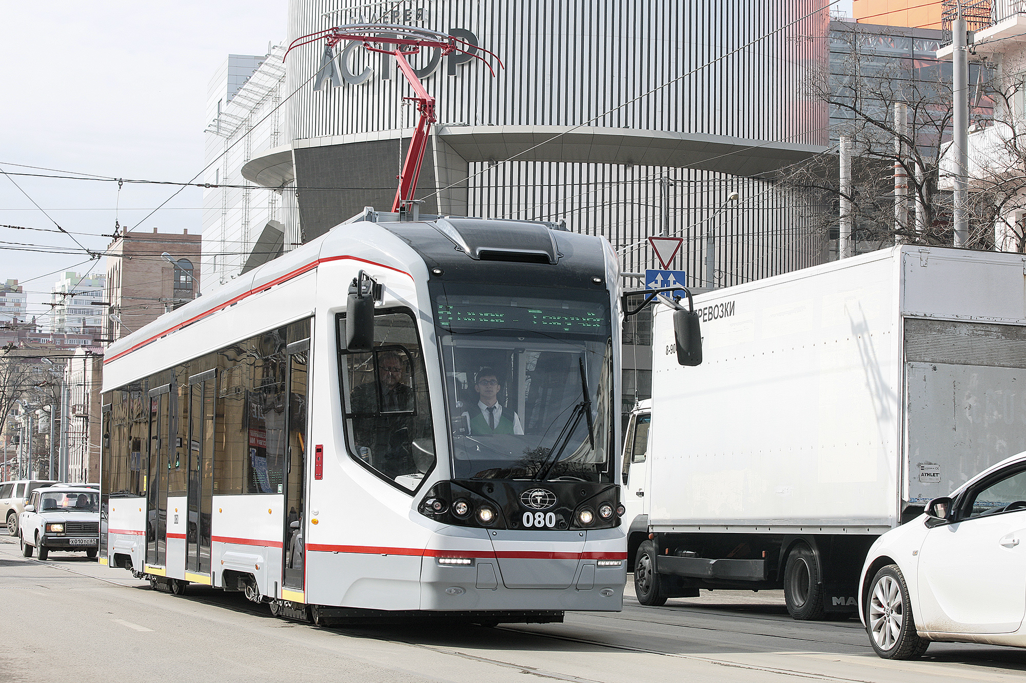 A tramcar 71-911E № 080 in Rostov-on-Don